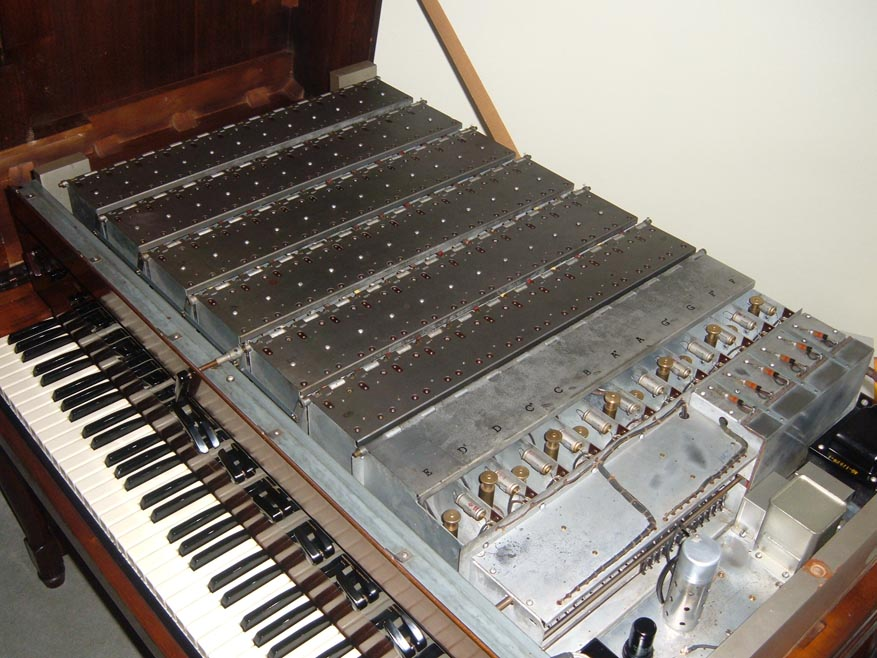 Inside the Hammond Novachord The 12 master oscillator tuning chokes